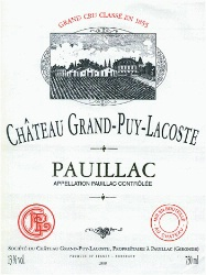 Label for Chateau Grand Puy Lacoste used with permission from